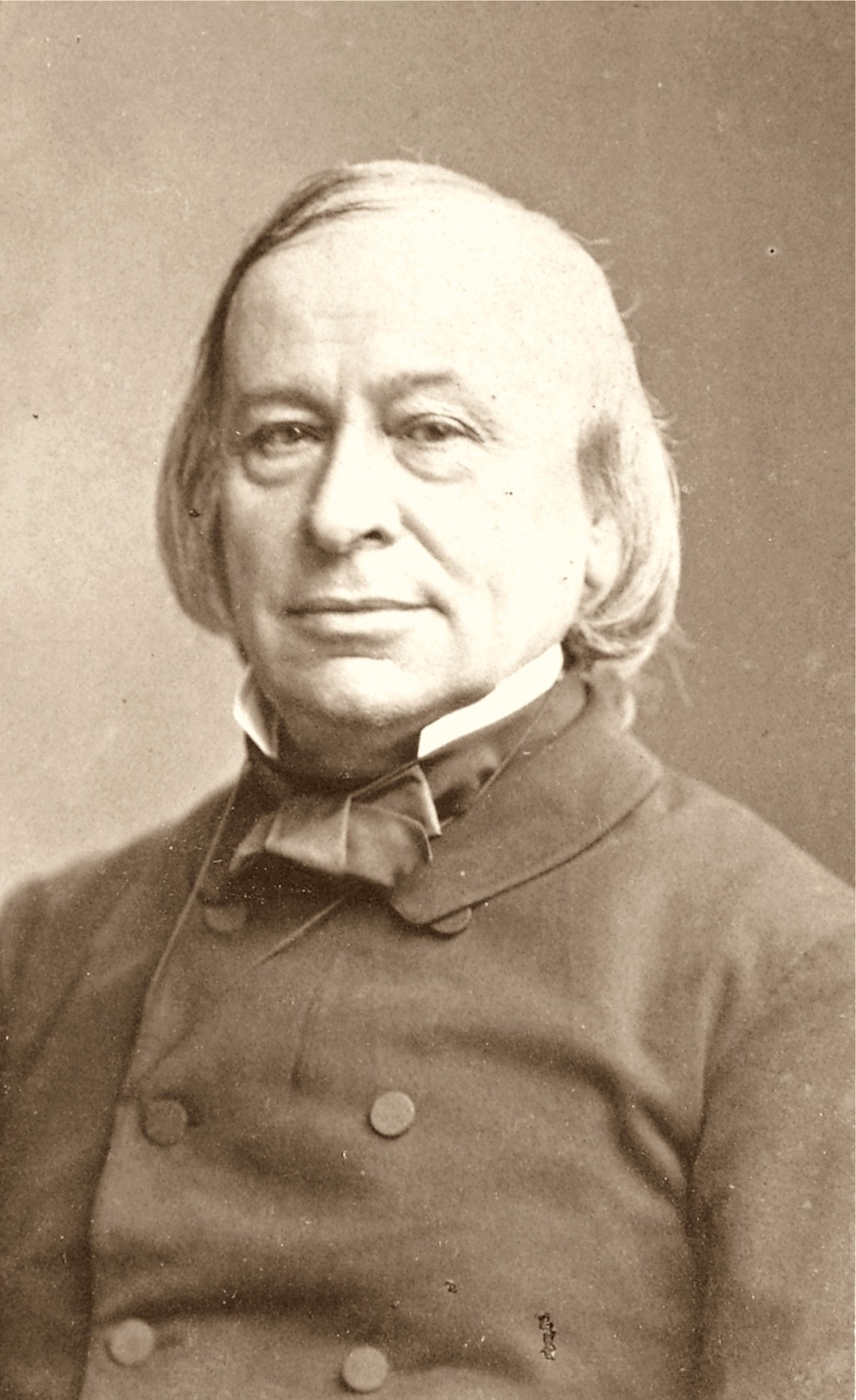 Édouard Laboulaye, Jurist from France